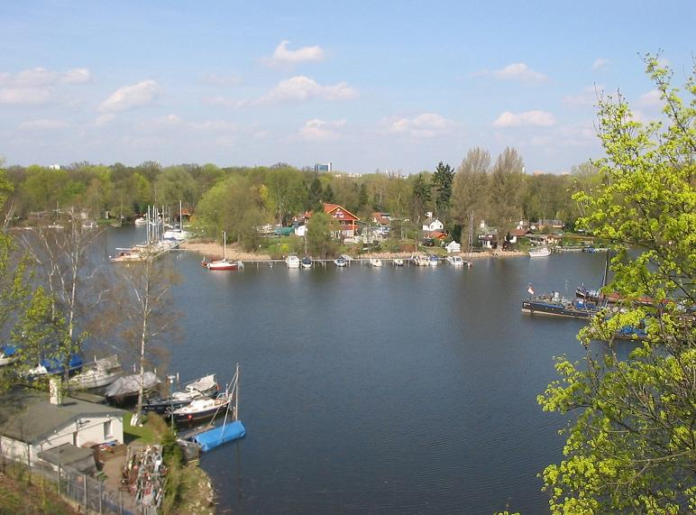 View from the Stößenseebrücke over the Stößensee. The Stößenseebrücke is a street-bridge of the Heerstraße over the lake Stößensee (river Havel back water) and the Havelchaussee in Berlin-Wilhelmstadt, Borough Spandau, at the border to Westend, Borough Charlottenburg-Wilmersdorf. It was built in 1908/1909 according to the plans of the construction engineer Karl Bernhard.